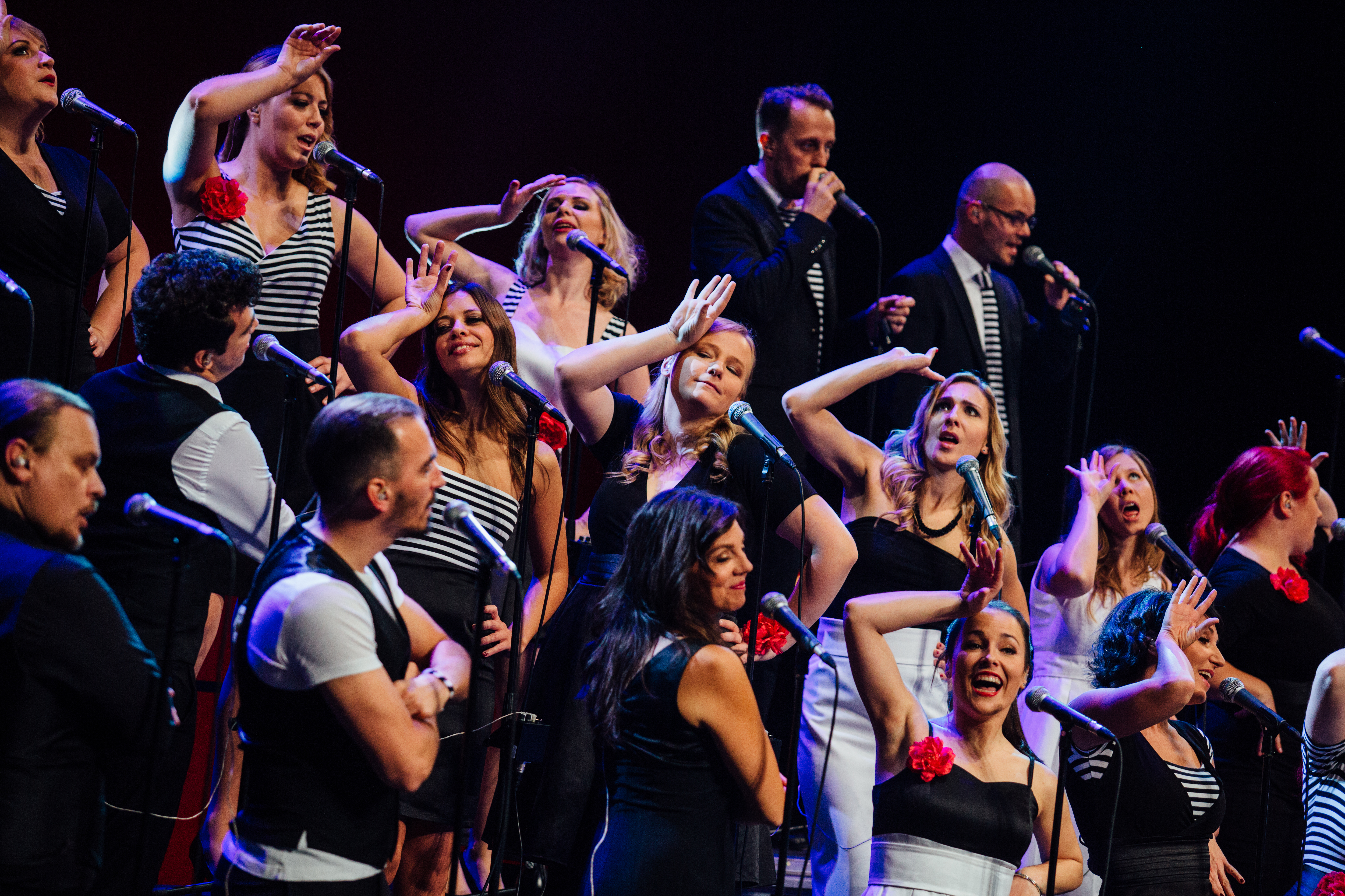 Tenors, sopranos and rhythm section of perpetuum Jazzile